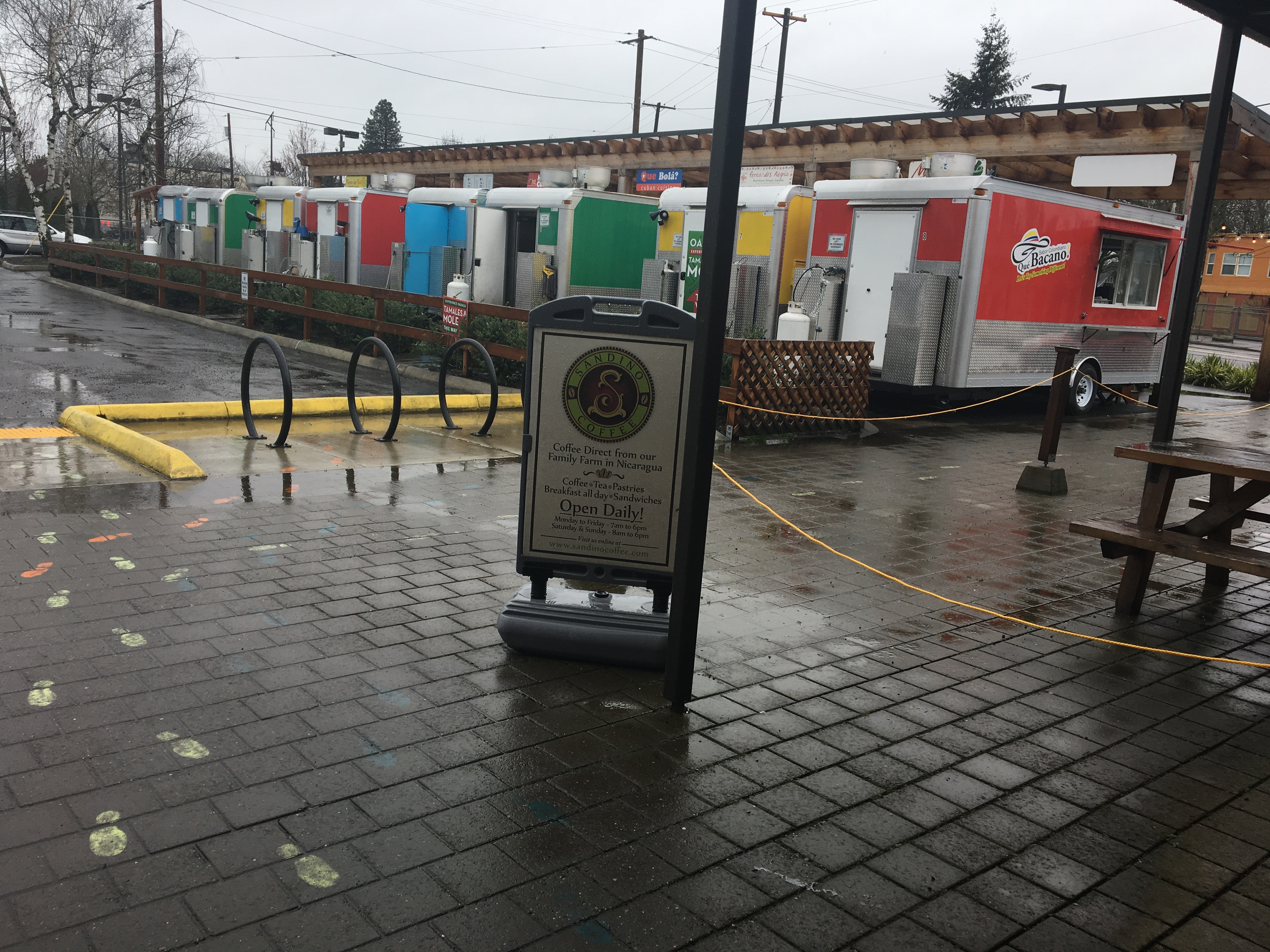 Portland Mercado, Latin American market in Portland, OR